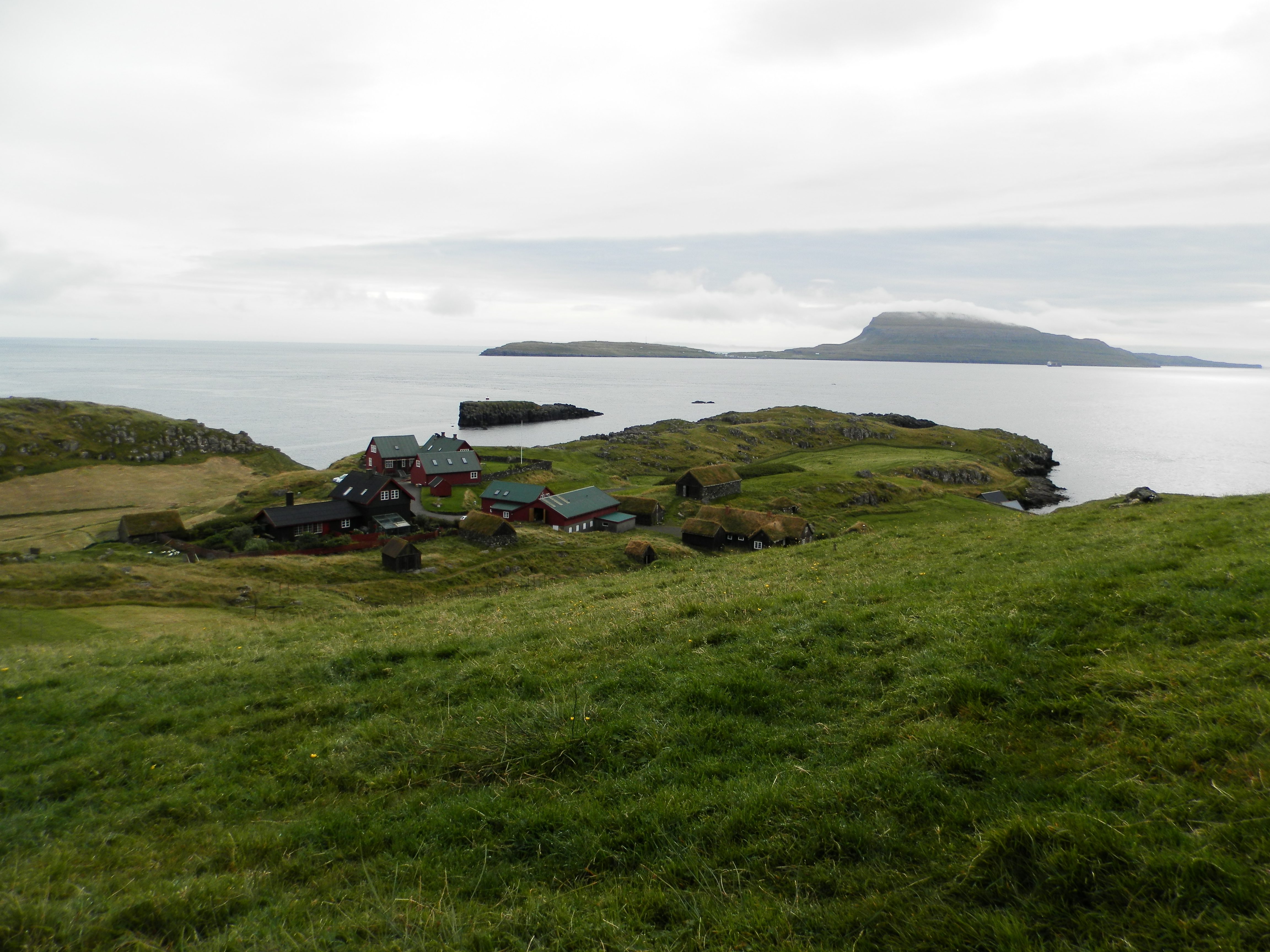 View from Hoyvík over Nólsoyarfjord, Nólsoy (the island) and Hoyvíkshólmur (the small islet). Hoyvík is just north of Tórshavn and a part of Tórshavn municipality, Faroe Islands. This is the old part of Hoyvík, where the outdoor museum is located.